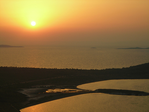 Sunset from seytan sofrasi,Ayvalik